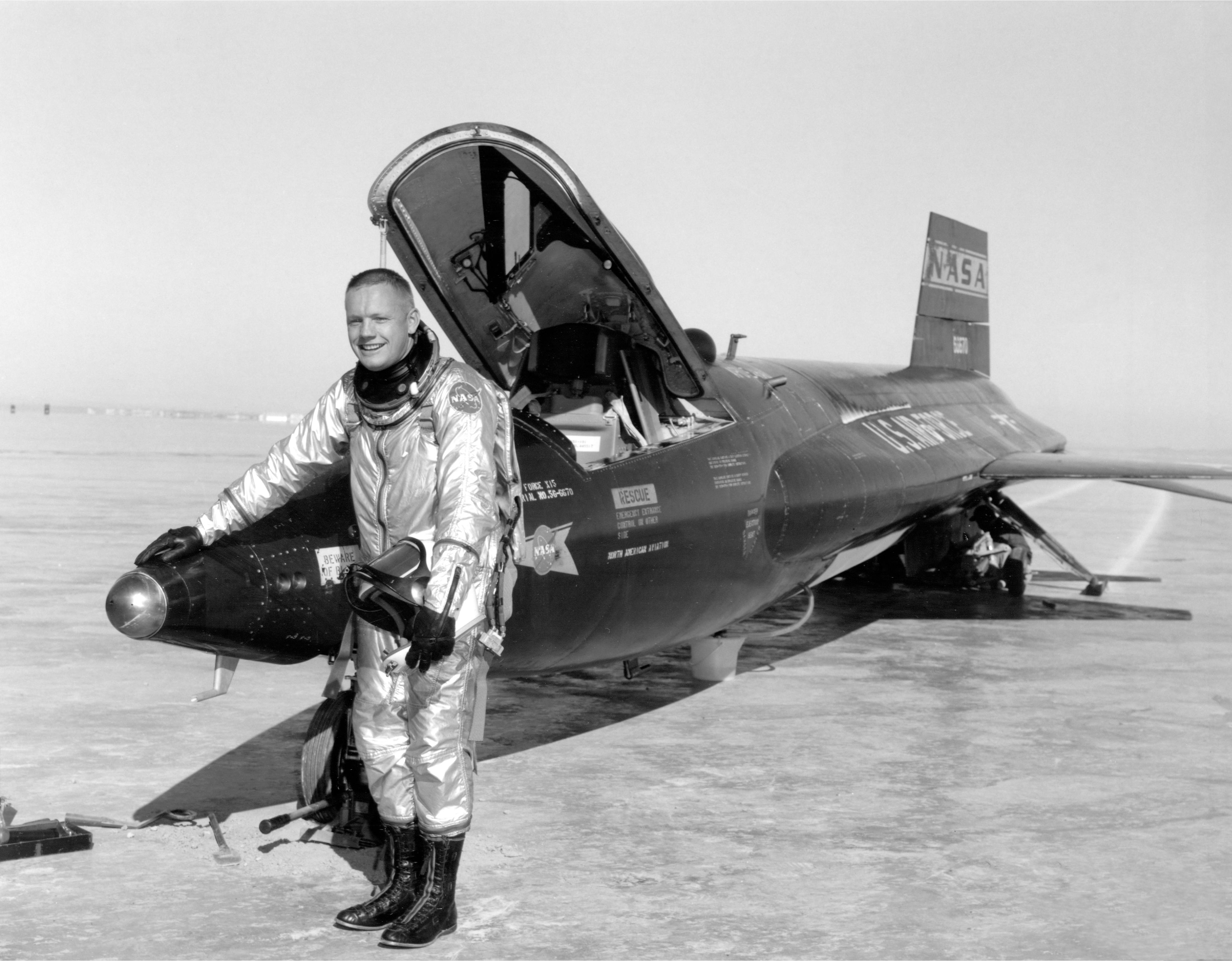 Dryden pilot Neil Armstrong is seen here next to the X-15 ship #1 (56-6670) after a research flight. Armstrong made his first X-15 flight on November 30, 1960, in the #1 X-15. He made his second flight on December 9, 1960, in the same aircraft. This was the first X-15 flight to use the ball nose, which provided accurate measurement of air speed and flow angle at supersonic and hypersonic speeds. The servo-actuated ball nose can be seen in this photo in front of Armstrong's right hand. The X-15 employed a non-standard landing gear. It had a nose gear with a wheel and tire, but the main landing consisted of skids mounted at the rear of the vehicle. In the photo, the left skid is visible, as are marks on the lakebed from both skids. Because of the skids, the rocket-powered aircraft could only land on a dry lakebed, not on a concrete runway.